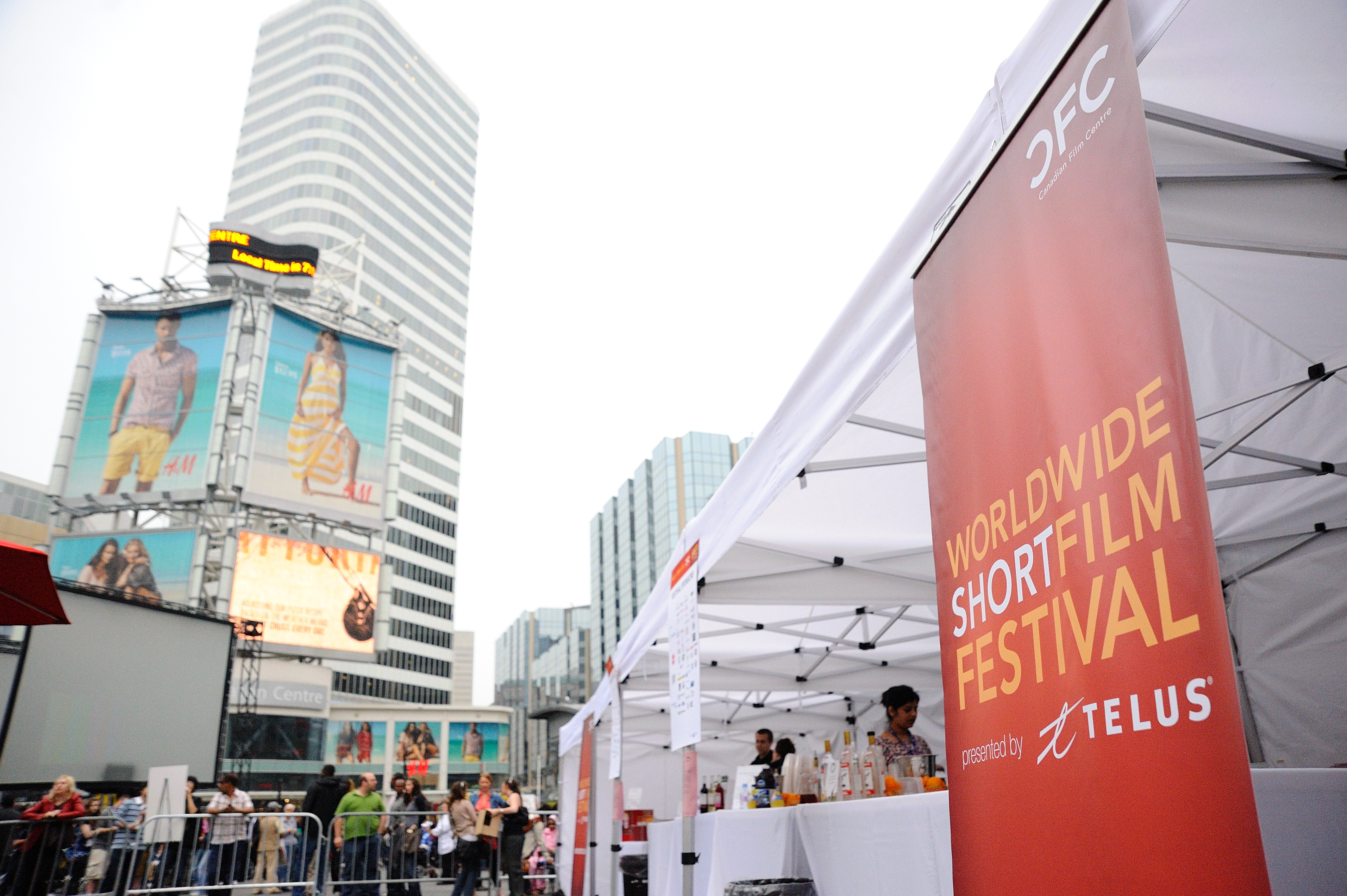 CFC Worldwide Short Film Festival 2011 in Nathan Phillips Square